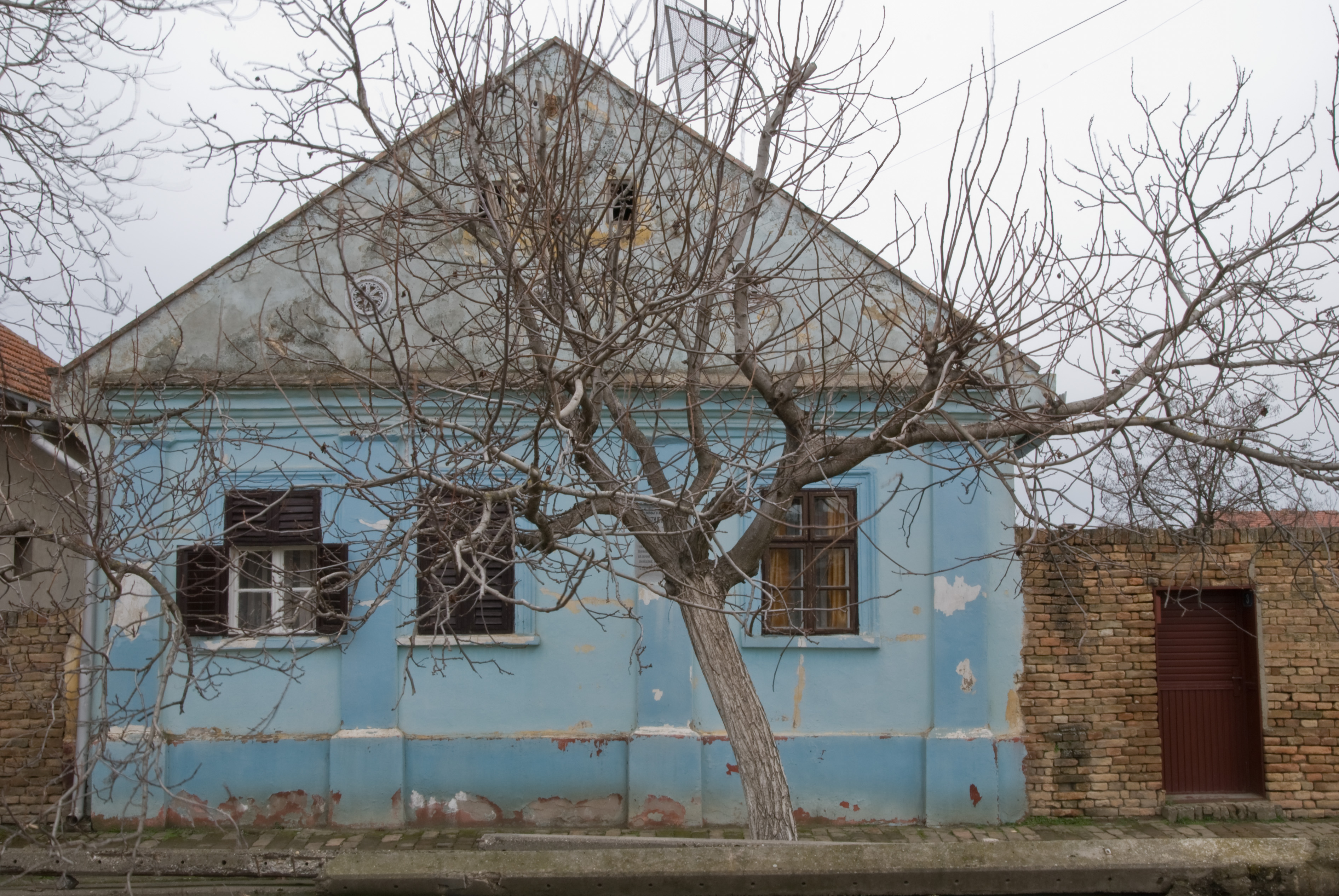 Birth house of Aksentije Maksimović in Dolovo, Pančevo